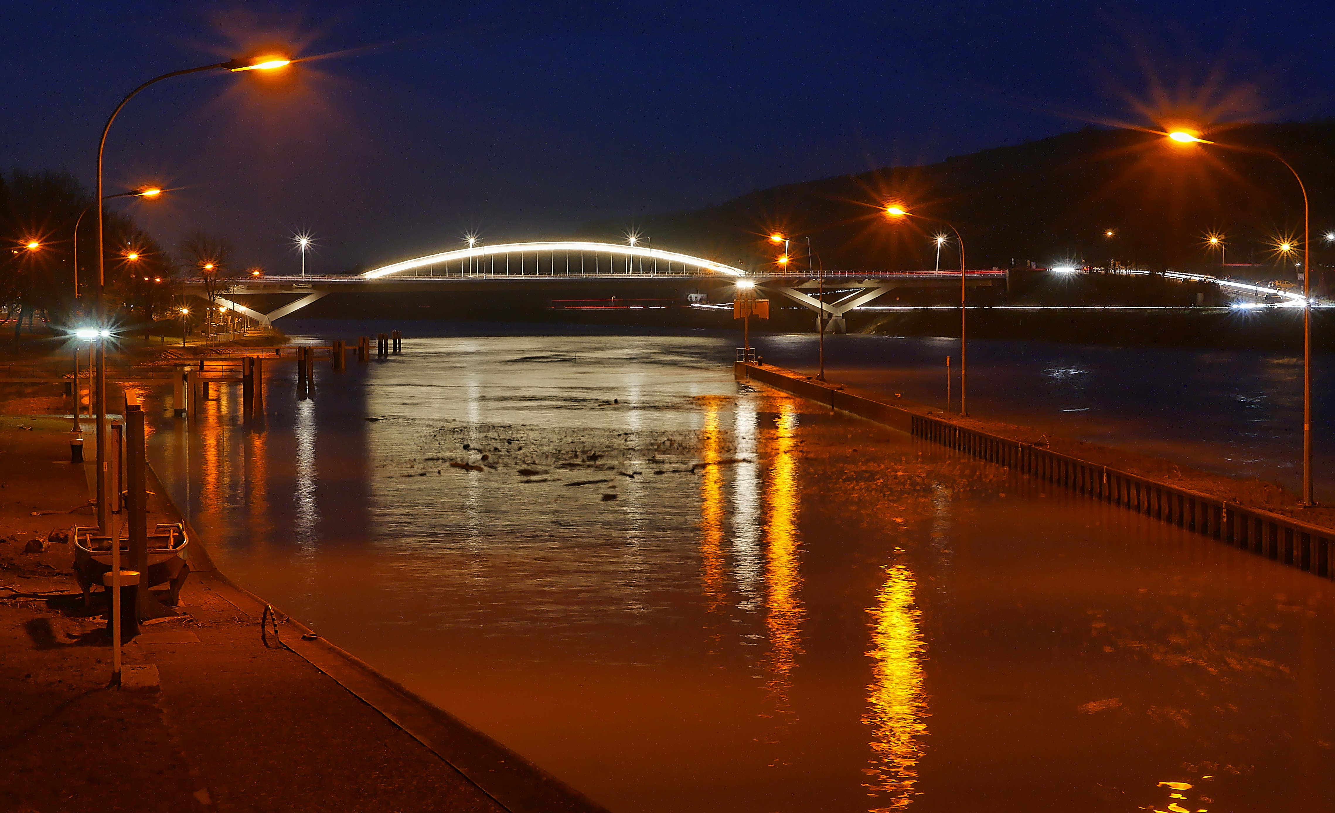 2013 built Moselle bridge Wellen-Grevenmacher at night.